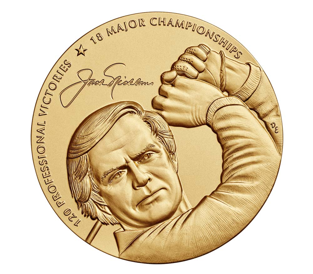 Bronze duplicate. Obverse Designer – Engraver: Don Everhart Reverse Designer – Engraver: Phebe Hemphill